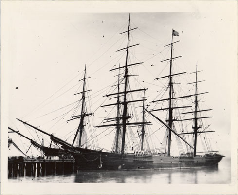 Sailing Ship Young America, photographic print. Written on back: "Young America. Builder: Wm. Webb 1853. Dimensions: 243 x 43.2 x 26.9. Tonnage: 1961. Type: American Clipper (Wood)."